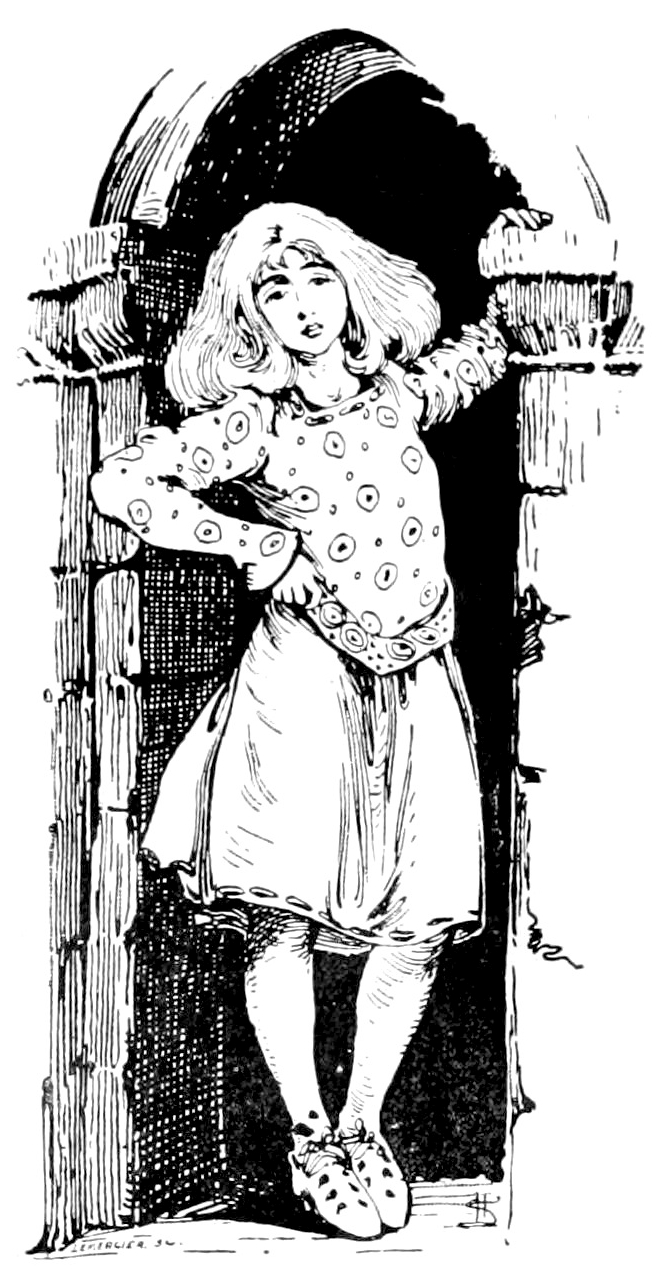 Illustration in a collection of Anderson's Fairy tales.